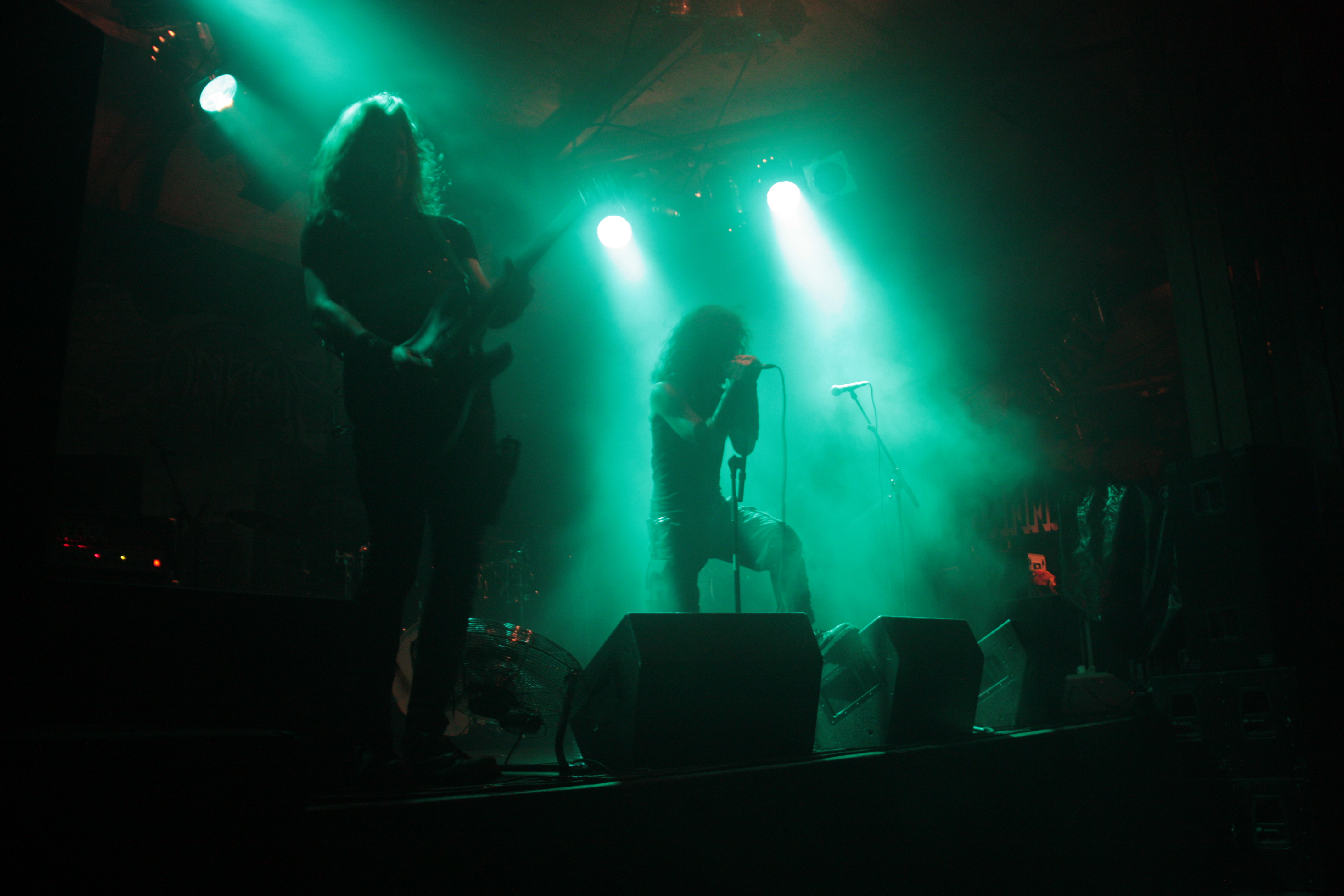 Zonaria on Occultfest 2010, friday september 3rd